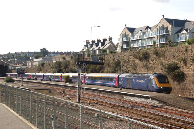 Penzance railway station photo-survey (37) A First Great Western HST, with power car number 43078 leading, awaits departure from Penzance on the 2pm service to London Paddington. Penzance railway station is the terminus of the former Great Western Railway's West of England mainline from London. It is the westernmost station in England. The original wooden station was opened by the West Cornwall Railway in 1852. The WCR was taken over by the GWR which constructed the current station which opened in 1879. Substantial improvements were made by the GWR in 1937. The station passed from the GWR to British Railways (Western Region) in 1948 when the railways were nationalised and is now operated by First Great Western. The current ticket office and buffet date from the 1980s. The station stands beside the sea (partly on reclaimed land) and the main buildings are constructed of local stone. Platforms 1, 2 and 3 terminate inside a 'train shed' with an arched roof; however, platform 4 on the south side of the station is uncovered. The extensive carpark and bus station southeast of the station were originally storage sidings and a large goods yard. One of the principal outbound traffics was fish from nearby Newlyn. For earlier photos of Penzance with semaphore signals and locomotive-hauled trains see [1] , [2] , [3] , [4] and [5] .